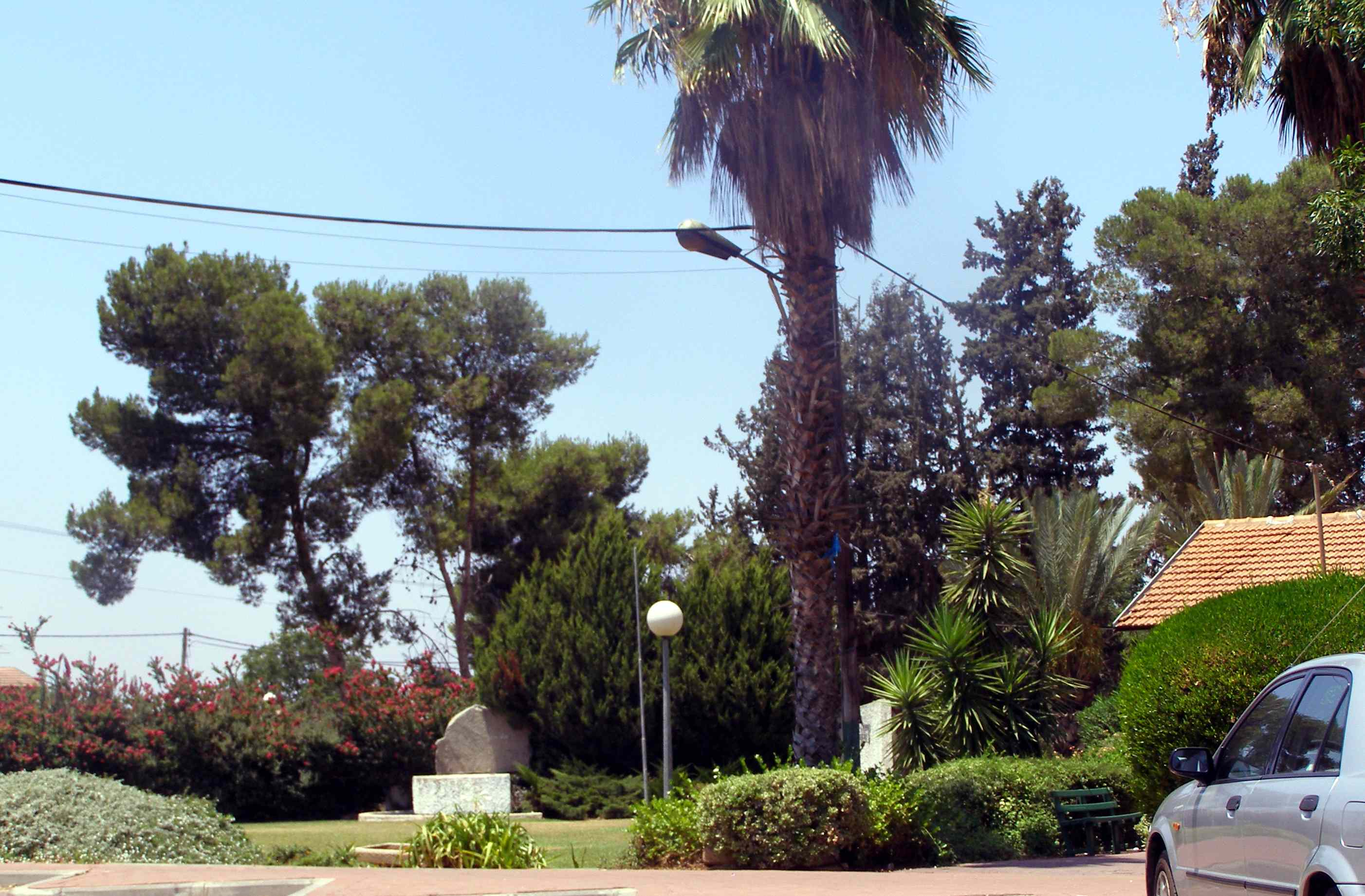 Settlement of Nir Zvi, near Lod